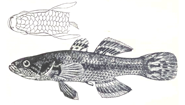 Ophieleotris aporos (Bleeker 1854)